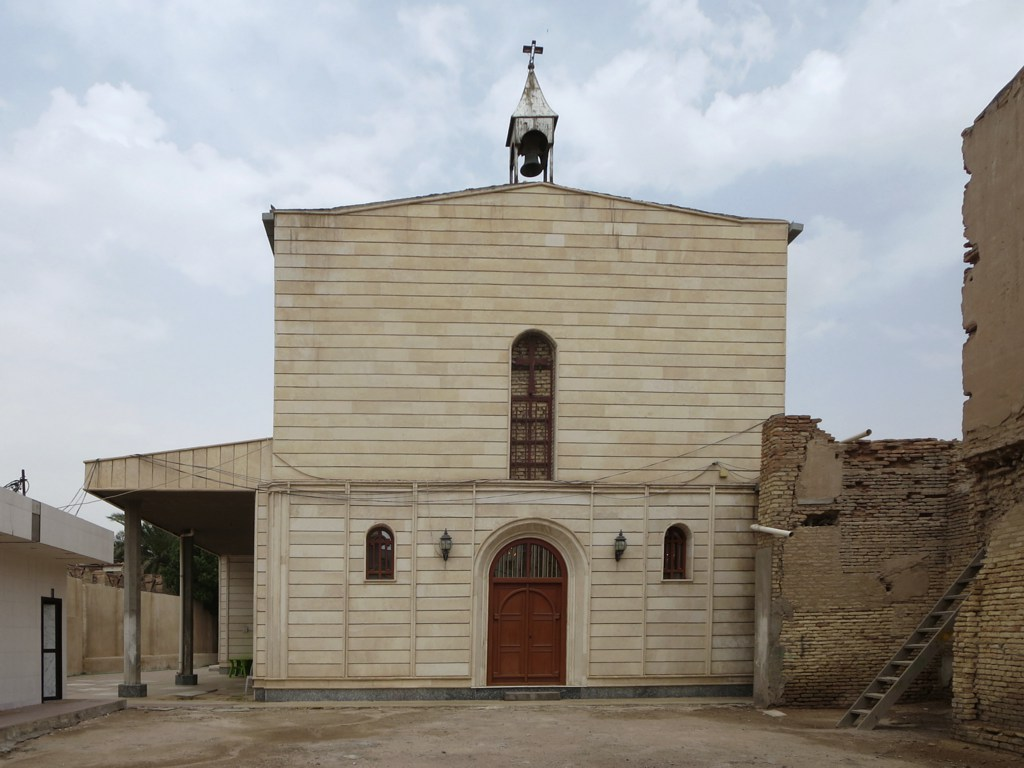 The Armenian Church in Basra, Iraq, dates from 1736 but has been rebuilt three times. The portrait of the Virgin Mary in the church was brought from India in 1882.